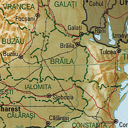 Map of Brăila County, Romania.